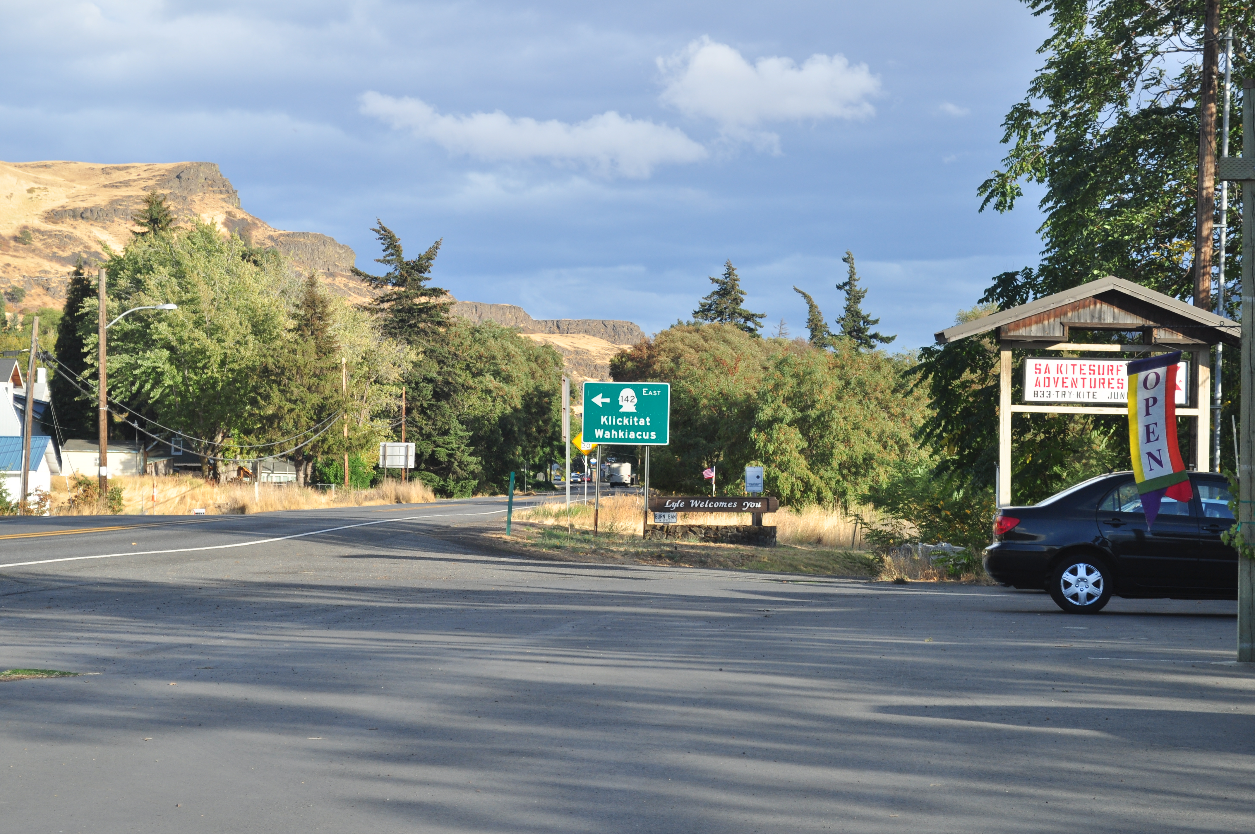 Sign on Washington State Route 14 in Lyle, Washington, U.S., looking east, indicating intersection with Washington State Route 142, which T-junctions there from the north.